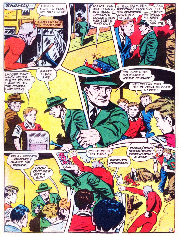 America's Best Comics #22, Page 26, June, 1947